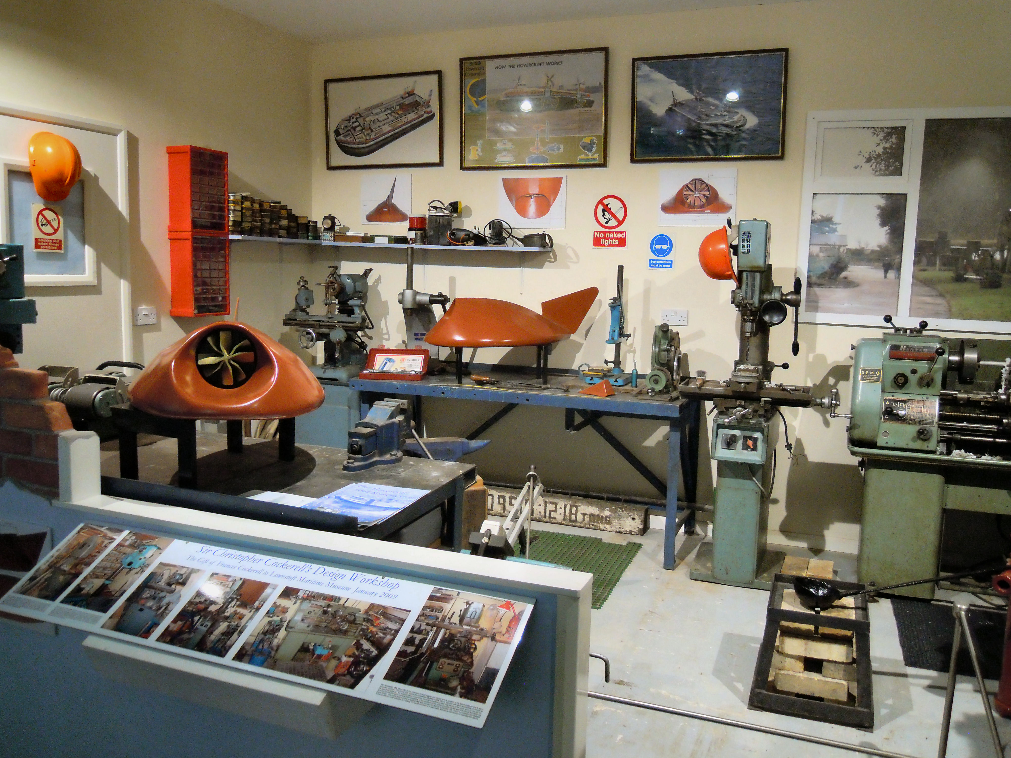 Sir Christopher Cockerell's workshop displayed at Lowestoft Maritime Museum